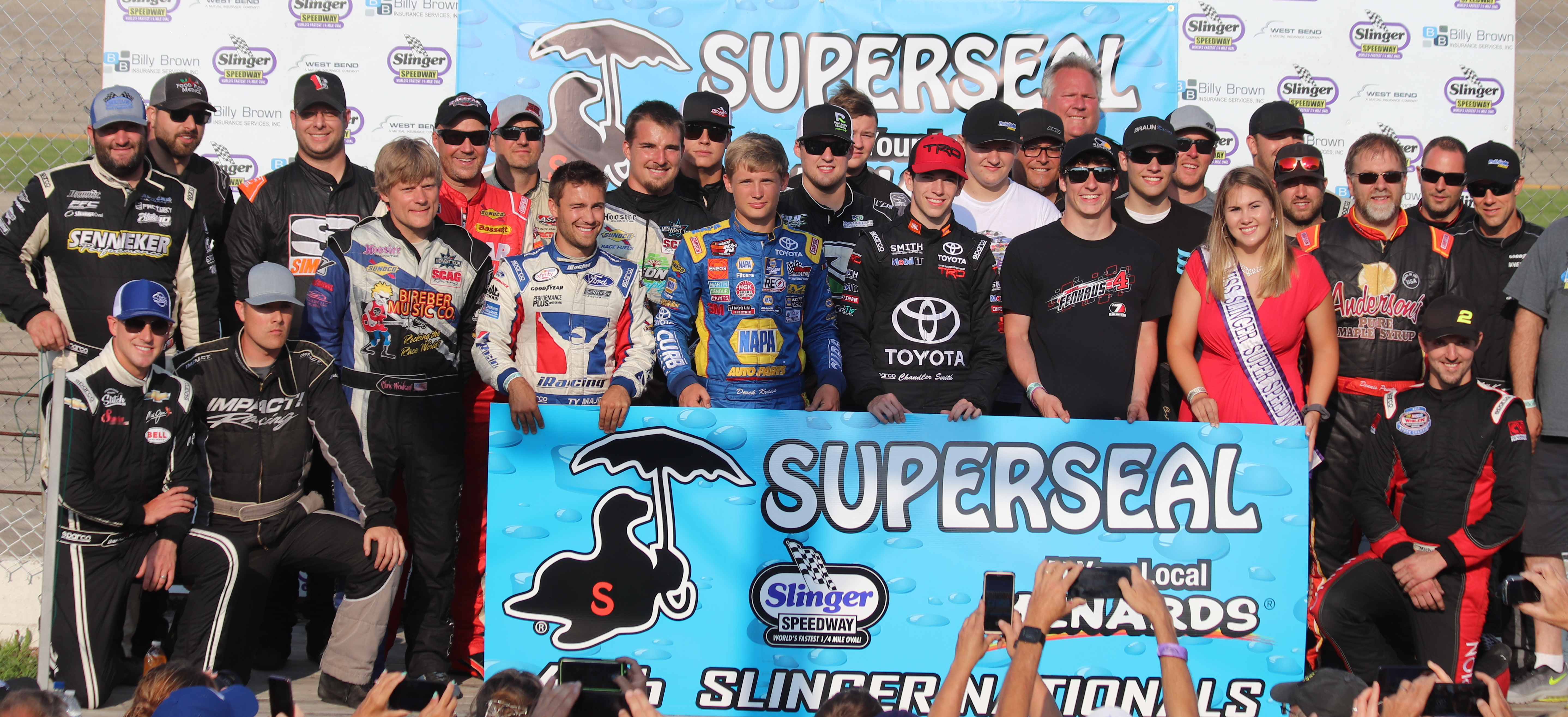 The field for the 2019 Slinger Nationals. Some notable drivers on the photograph include 7 drivers with at least one start in NASCAR's big 3 series: Ty Majeski, Chandler Smith, Matt Kenseth, Derek Kraus, Brad Mueller, Johnny Sauter, and Daniel Hemric. Missing on the photograph was Rich Bickle. Other drivers on the photograph include CRA champion Josh Brock, southern barnstormers Bubba Pollard and Stephen Nasse.